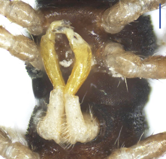 Desmoxytes lingulata , ♂ paratype from Ertang Twon, Chaotianyan. Gonopods in situ, ventral view. Scale bars= 0.2 mm.